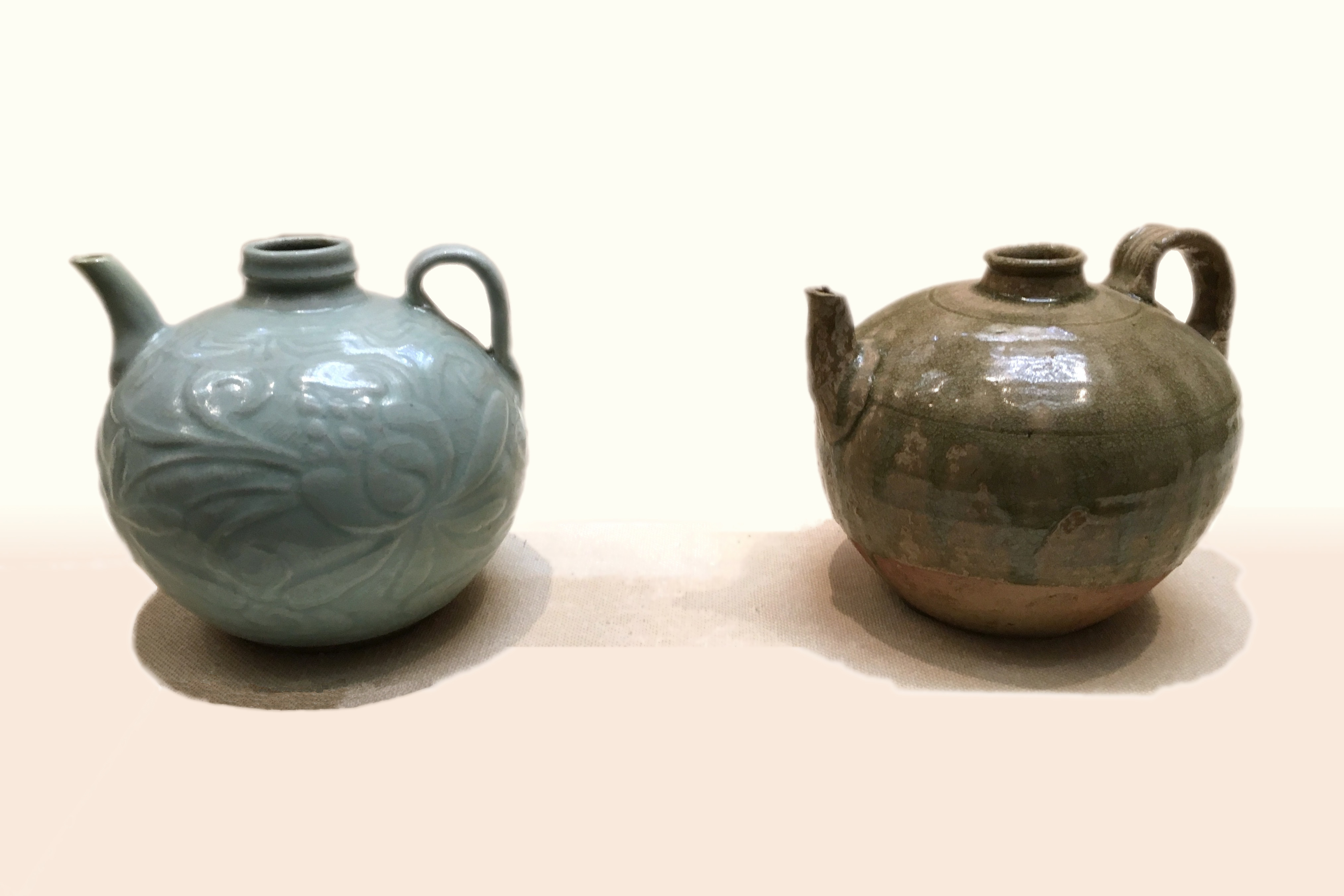 (left) Ewer, floral design, Qingbai ware Jingdezhen kilns, China Southern Song dynasty, 13th century Aichi Prefectural Ceramic Museum --- (right) Ewer, ash glaze Seto ware, Japan Nanboku-chō period, 14th century Aichi Prefectural Ceramic Museum